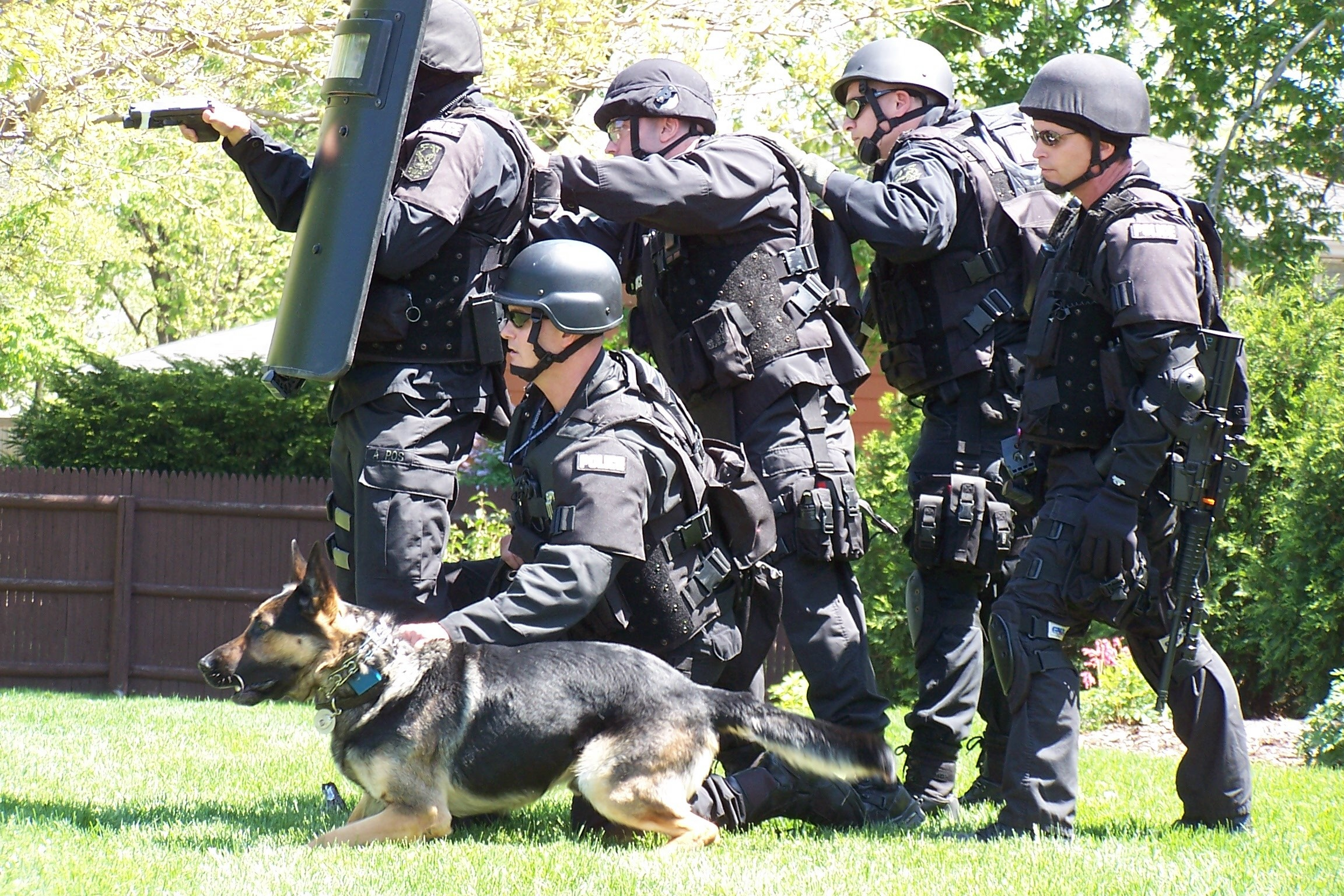 Felony Investigative Assistance Team SWAT Team just before a raid.